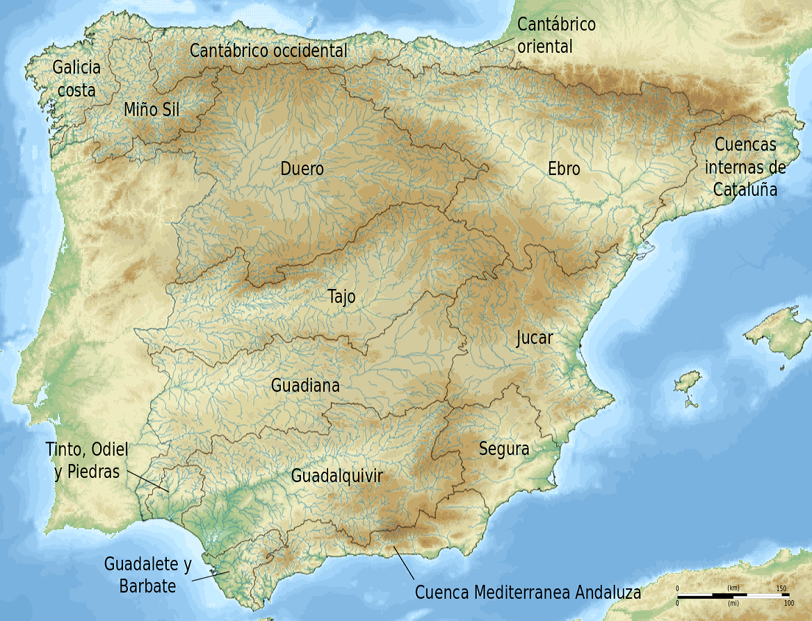 Rivers and river basins of continental Spain, names in Spanish.